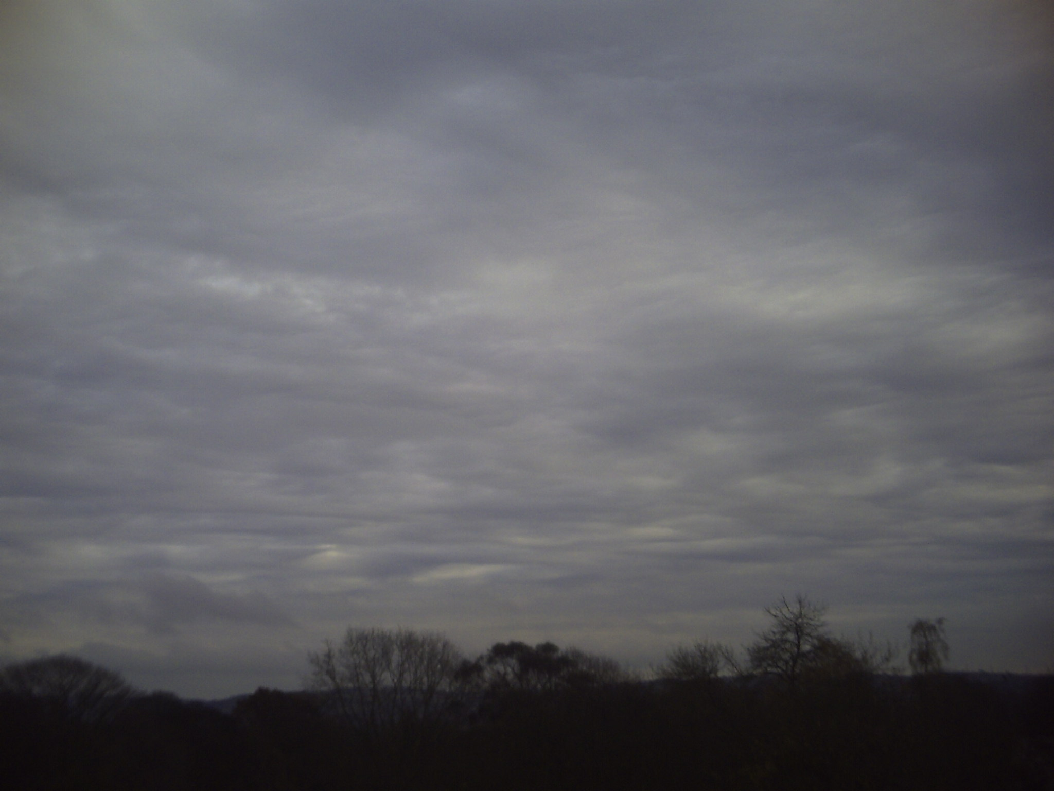 Altostratus opacus undulatus, in this case associated with a warm front. Some Stratus fractus (Pannus) is also visible under the Altostratus in the lower left.